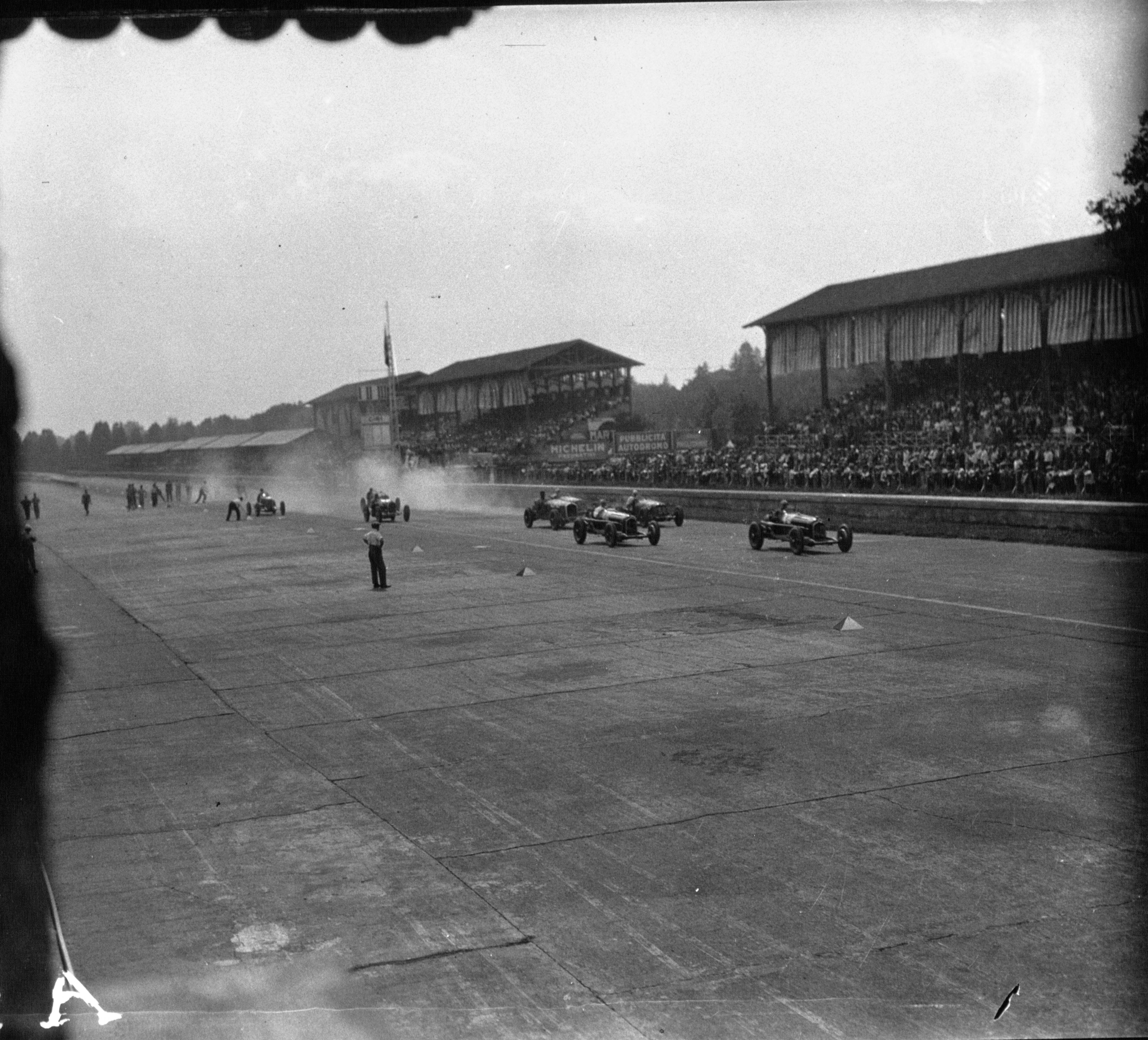 Start of the 1932 Monza Grand Prix